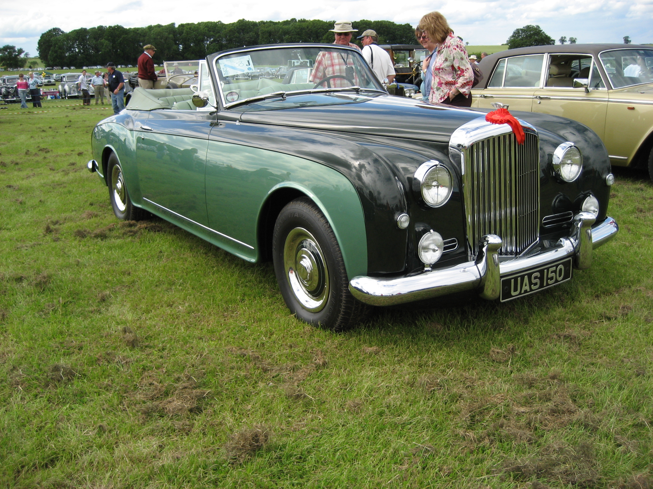 Bentley S1 Continental (#BC31LAF) Park Ward Drophead Coupé. 1956